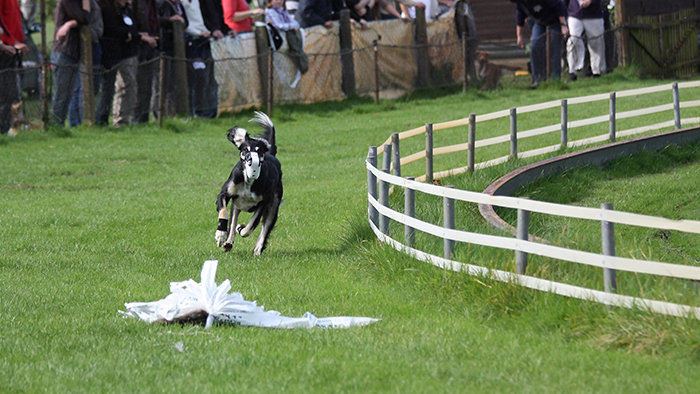 Saluki during a dog racing.